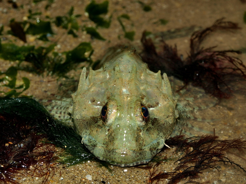 Photograph of a Long-Spined Scorpion Fish, Taurulus bubalis, taken at Scarborough, North Yorkshire